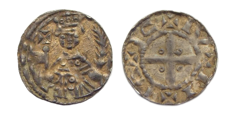 Emperor Frederick I Barbarossa (1152-1190), denar struck in Nijmegen. Obverse: Frederick with banner and palm branch, cross above banner. Reverse: Cross with dot in each quarter, legend around.